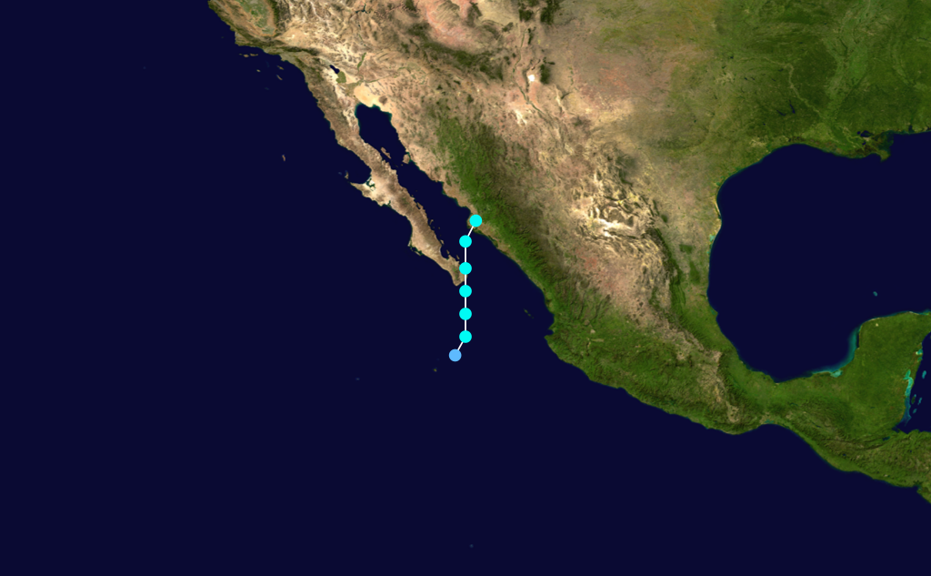 Tropical Storm Lidia (1981) track. Uses the color scheme from the Saffir-Simpson Hurricane Scale.